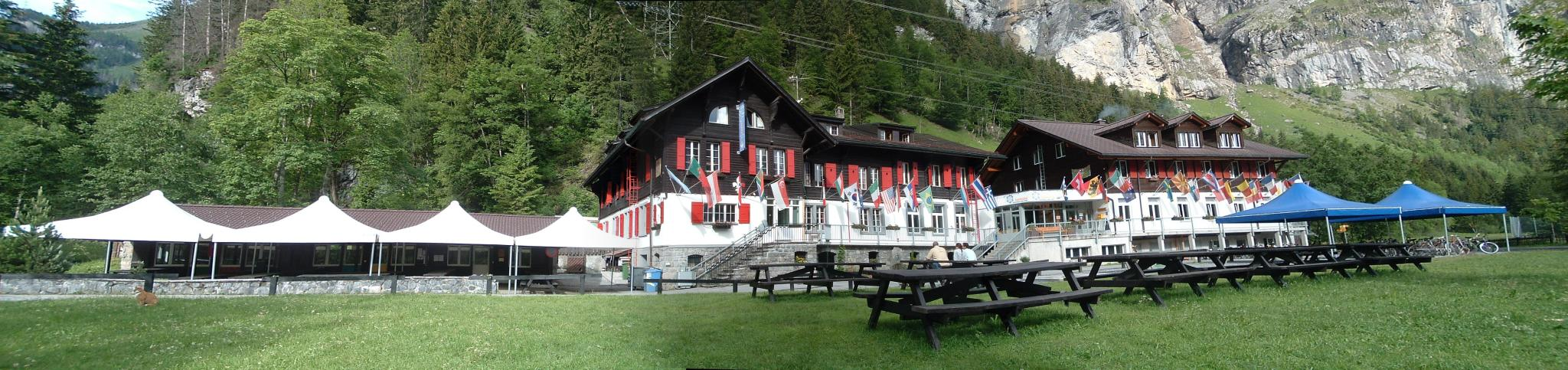 Kandersteg International Scout Center chalet a wide shot